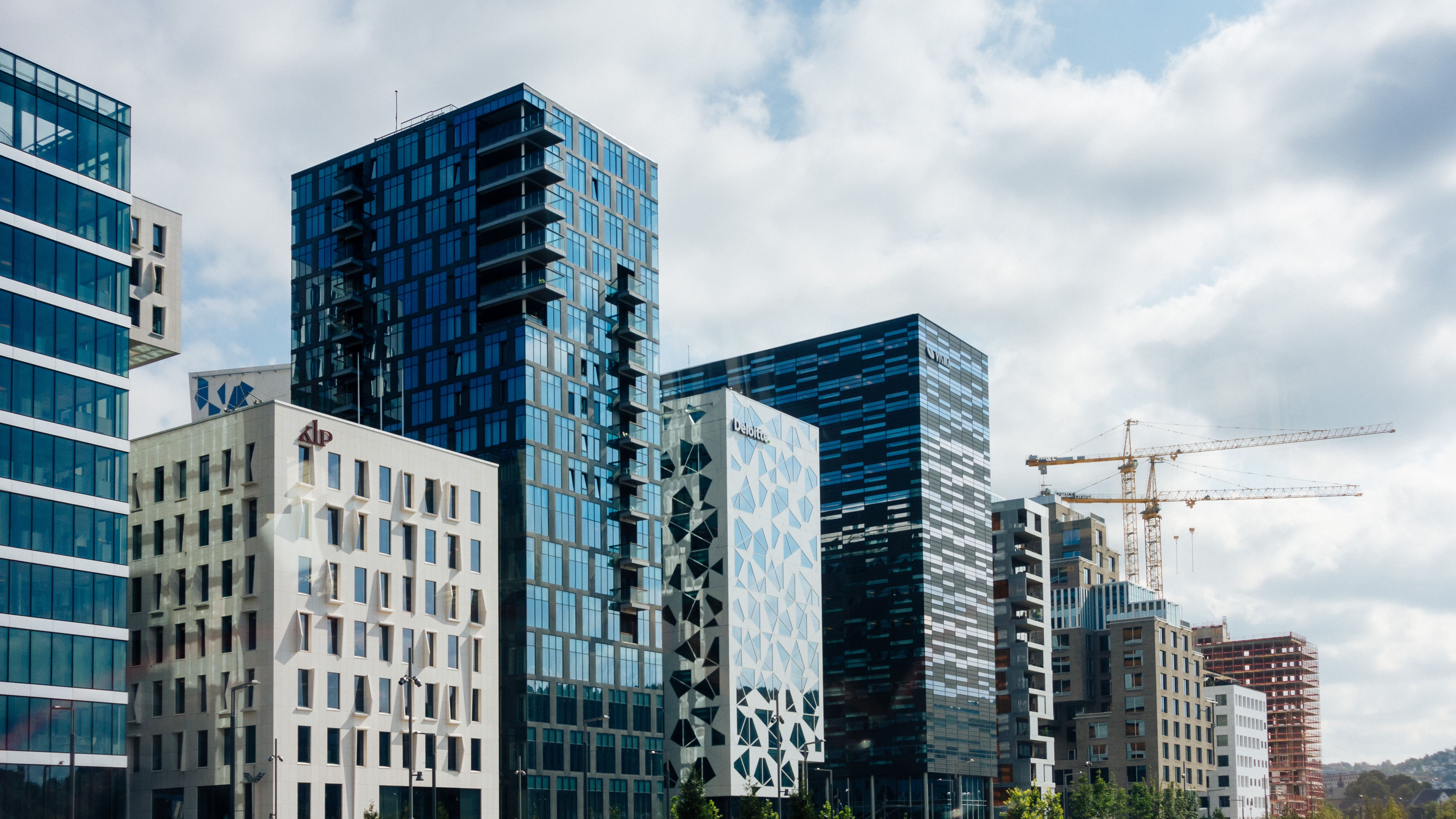 Buildings part of the Barcode Project in Oslo, Norway The grouping of the long, slender, and linear buildings is supposed to resemble a barcode.